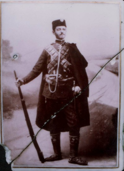 Portrait on grave of Serbian Chetnik Petar Todorović